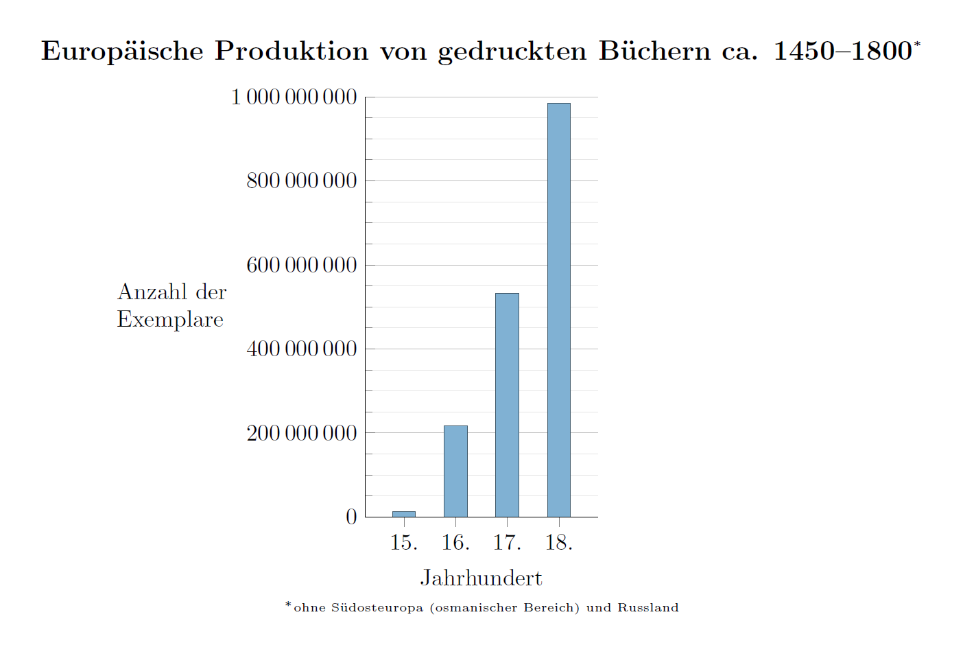 Estimated output of printed books in Europe from ca. 1450 to 1800. A book is defined as printed matter containing more than 49 pages.